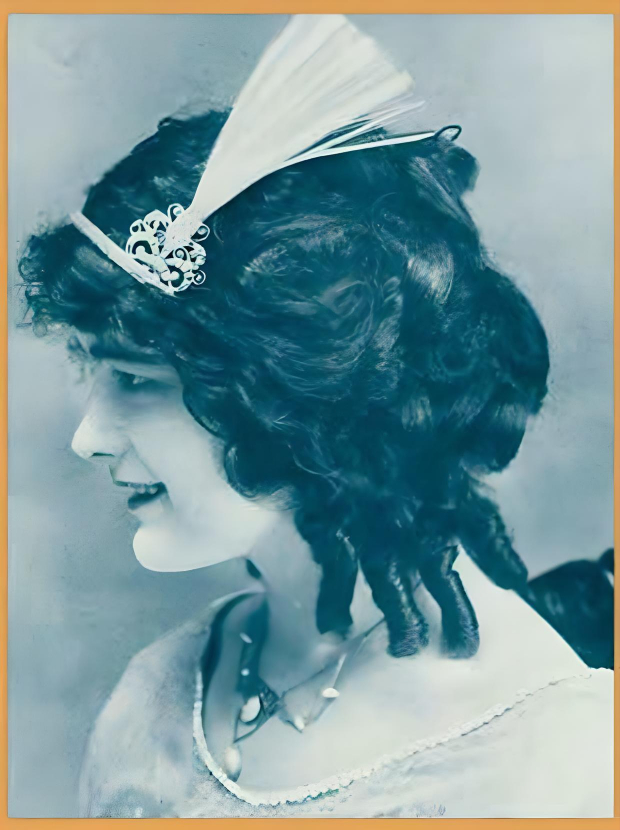 Publicity photo of Vivian Rich from Stars of the Photoplay